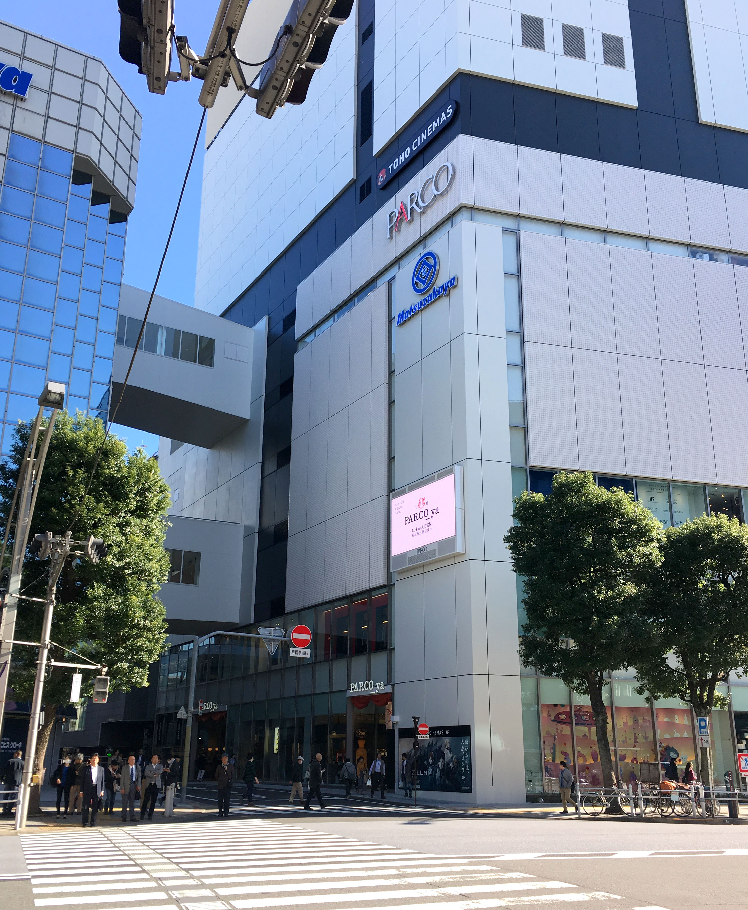 PARCO_ya Ueno (Department store in Japan)